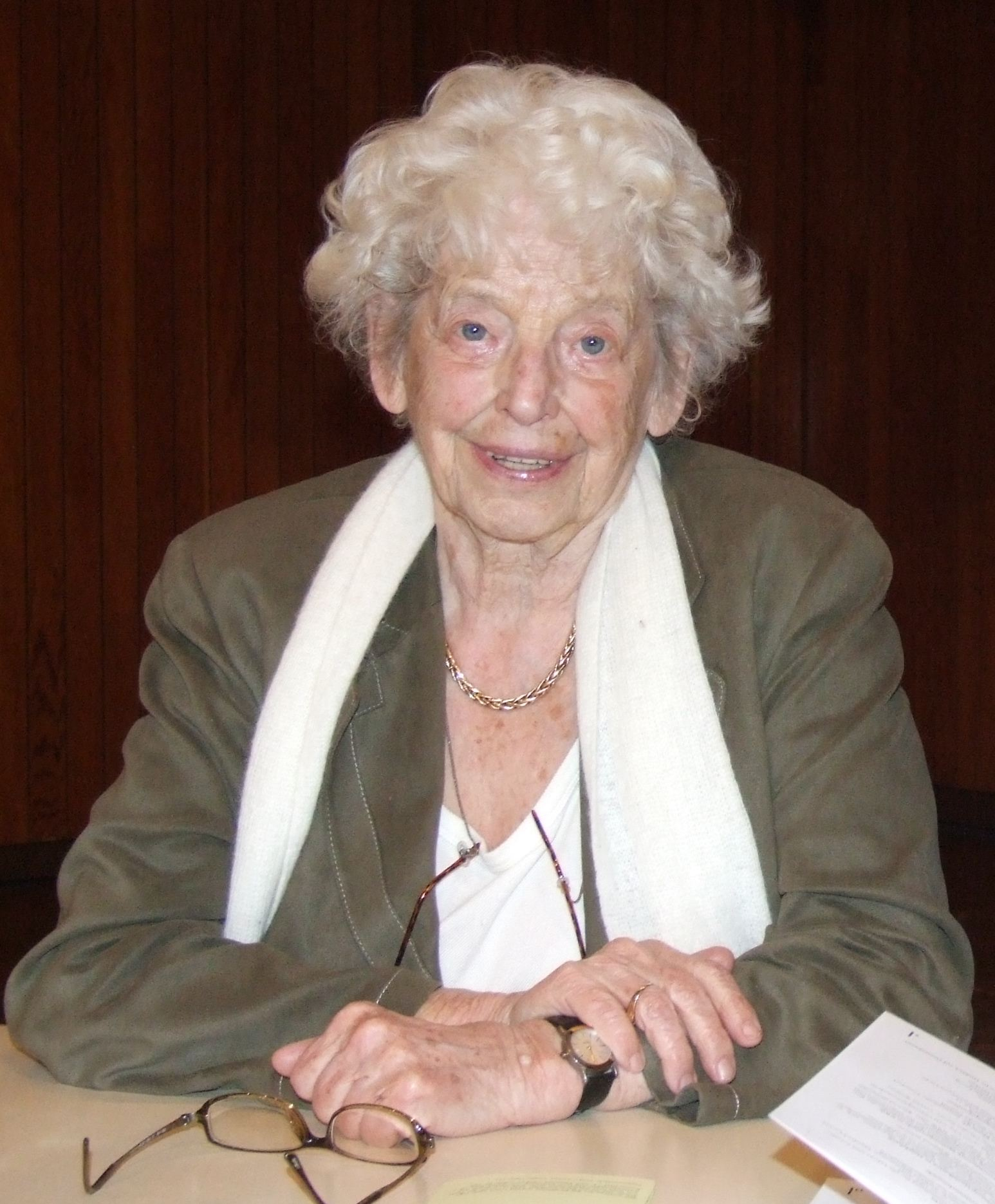 Anneliese Knoop-Graf, visit at the CJD Christophorusschule Königswinter